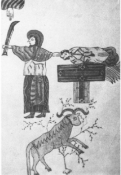 Depiction of the tale of Isaac's sacrifice in the Leon Bible